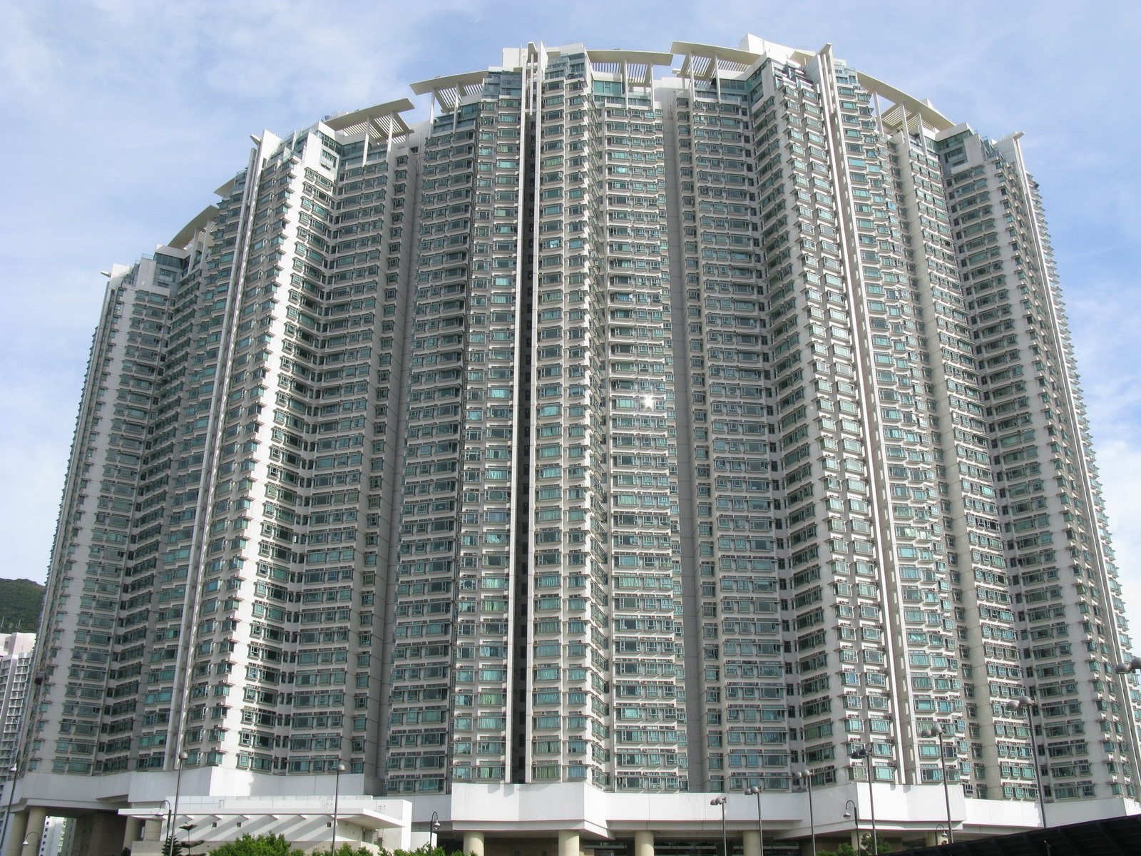 Tung Chung Crescent